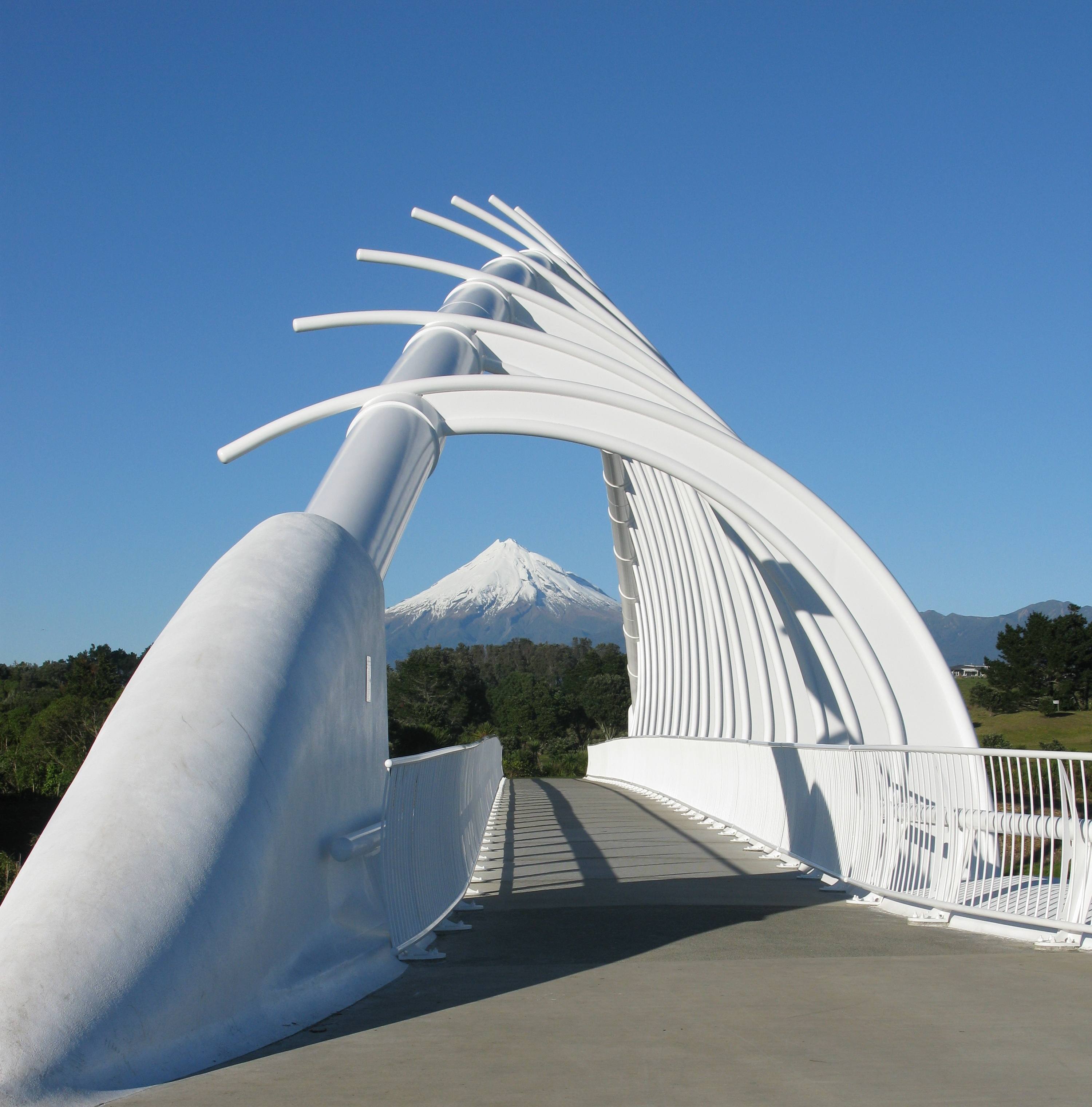 View through the bridge through to Mount Taranaki